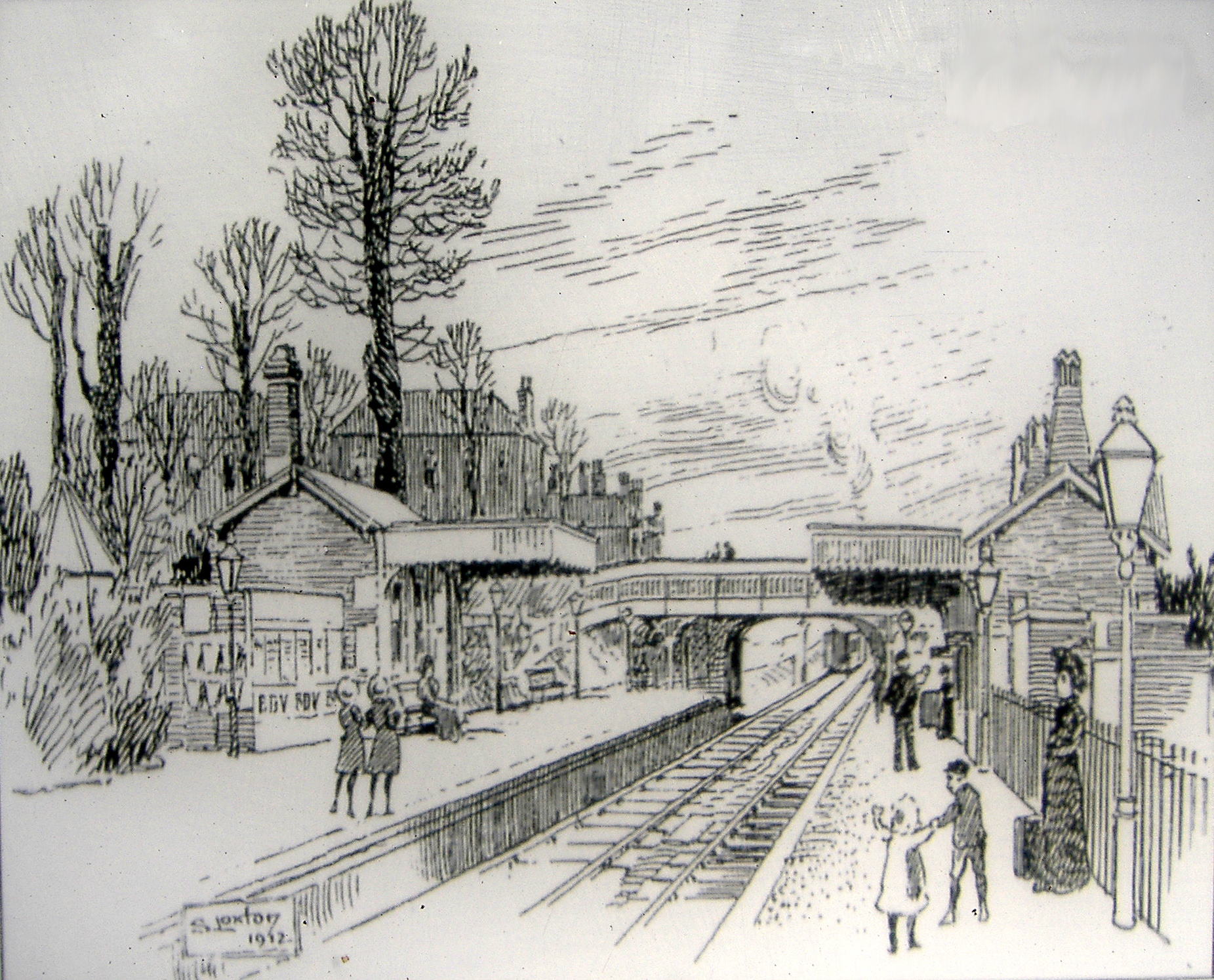 Illustration of Redland railway station from 1912, showing both platforms and the bridge over the line.